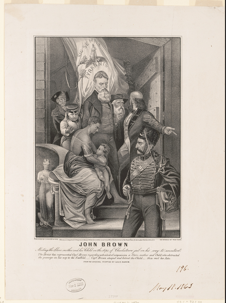 Sic semper tyrannis ("thus always to tyrants") is the motto of the state of Virginia, whise flag is in the halo over Brown's head. "John Brown / Meeting the Slave Mother and her Child on the steps of Charlestown jail on his way to execution. The Artist has represented Capt. Brown regarding with a look of compassion, a Slave-mother and Child who obstructed the passage on his way to the Scaffold. Capt. Brown stooped and kissed the Child - then met his fate." Picture is intended to suggest a parallel with Christ on the way to his execution. Note Virgin Mary-like black mammy nursing a mulatto baby (see Children of the plantation). Currier and Ives print of 1863. Reproduces a lost painting by Louis Ransom, once held by Oberlin College